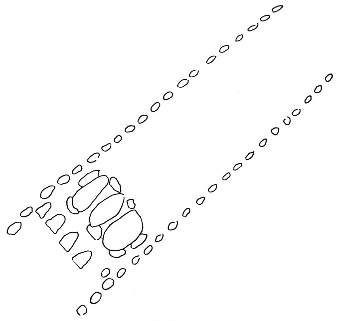 Megalithic Tomb Wüstenfelde 2 (Sprockhoff-No. 569)